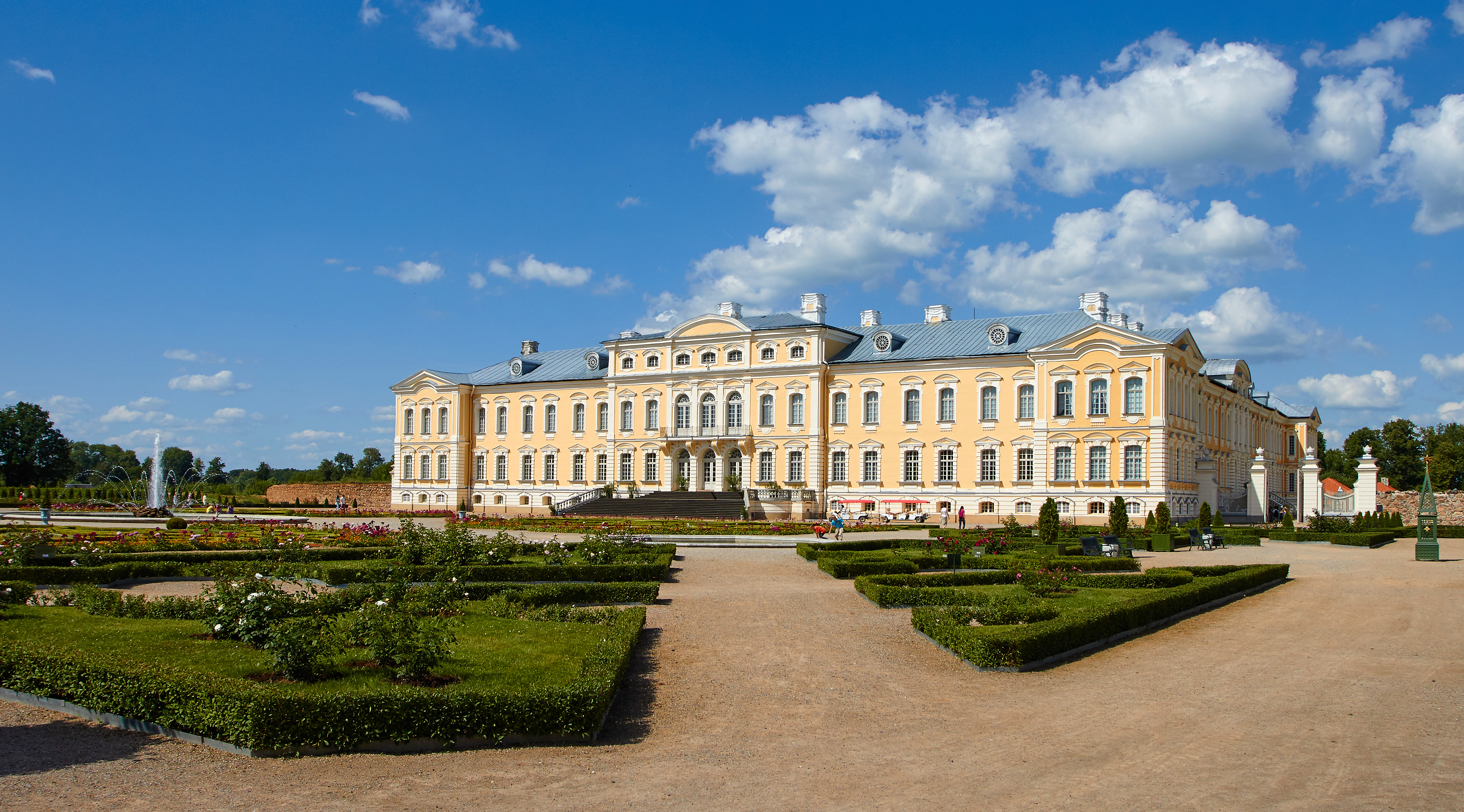 Rundāle Palace